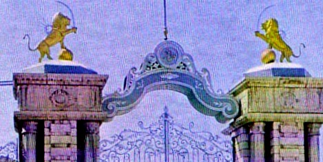 Lion and Sun on the top of the "Majles-e Shora-ye Melli" (Iranian Parliament) Entrance, before the revolution in 1979